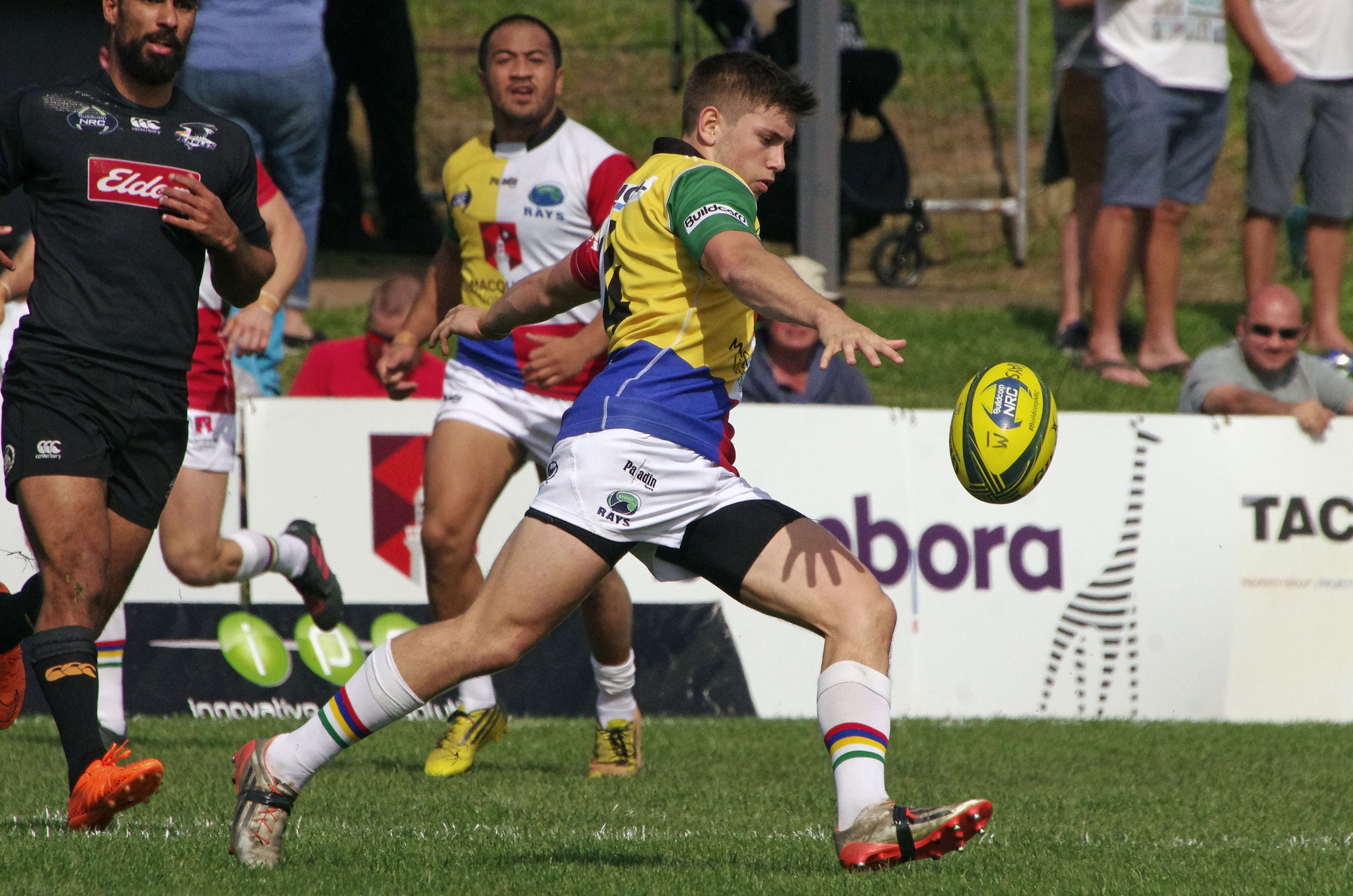 Rugby player Josh Turner of the Sydney Rays is about to kick the ball during a match at Pittwater Park in Sydney against the NSW Country Eagles in Australia's 2016 National Rugby Championship.